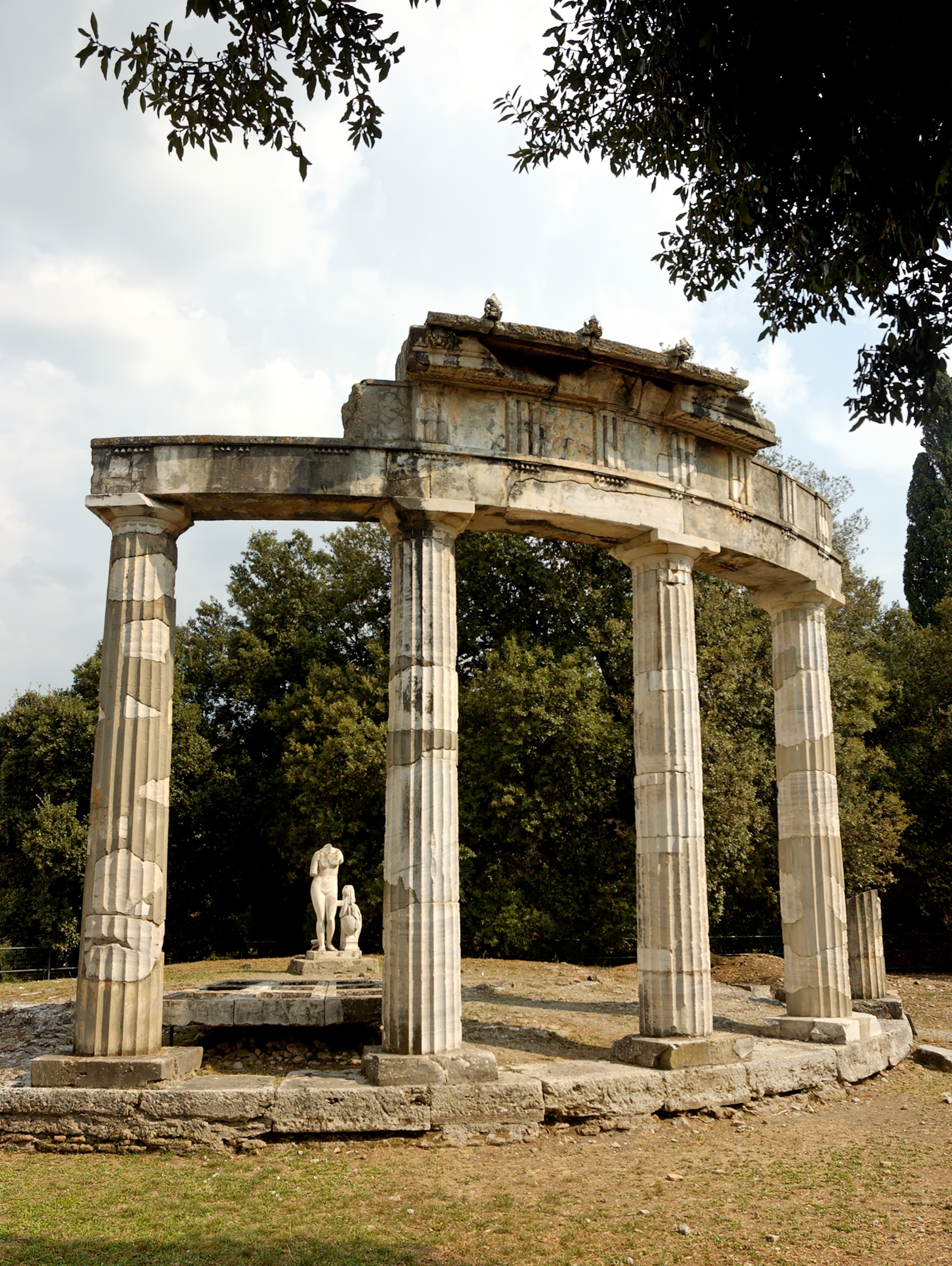 Venus Temple at the Villa Adriana in Tivoli.